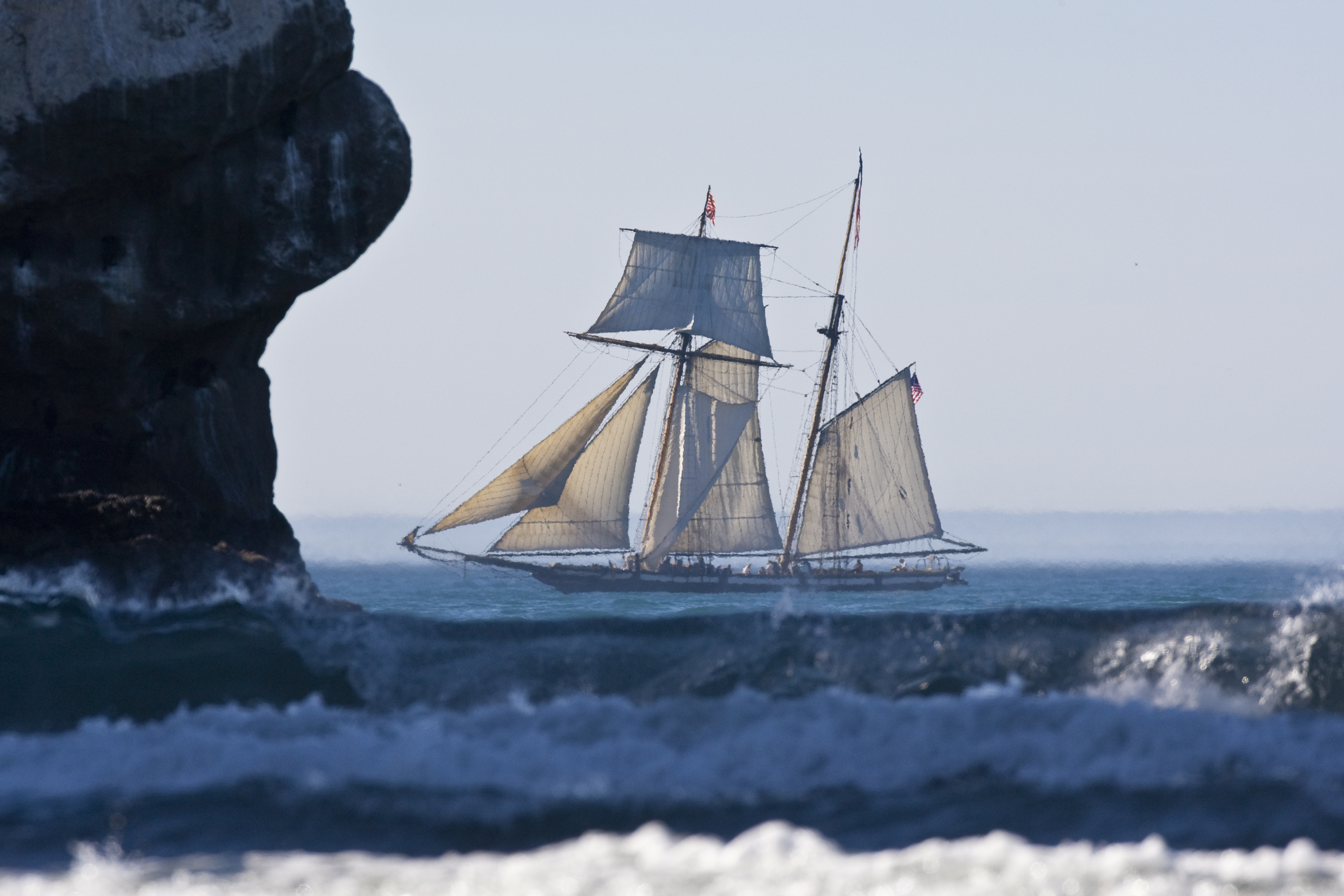 The Lynx, "Privateer ship Lynx, just north of Morro Rock, approaching Pillar Rock, Morro Bay", California, USA (quoted from source